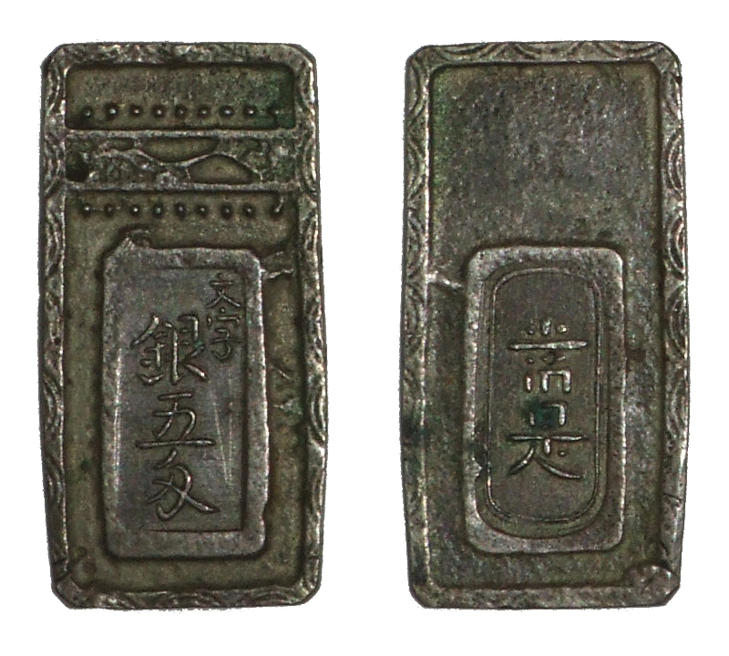 Bunzi-gin5monme